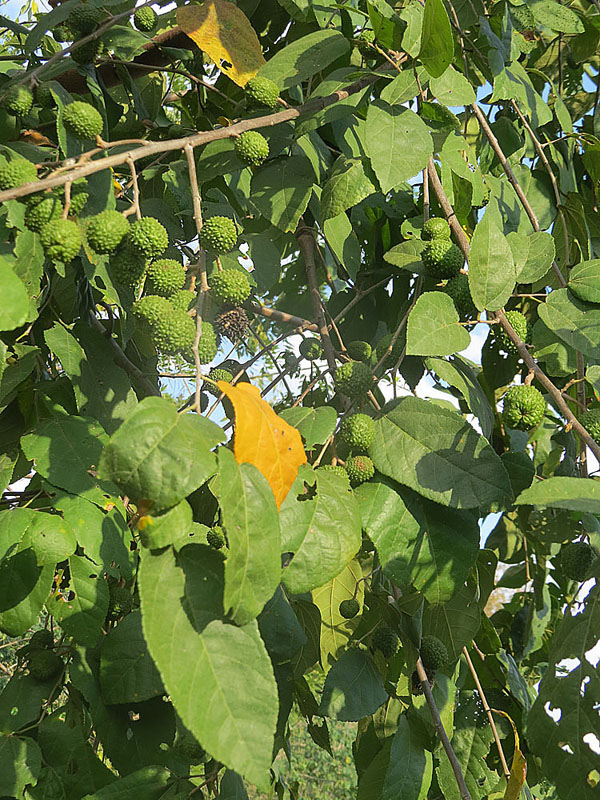 Known as Pigeonwood or as Guacima. Used for wood, fodder and folk medicine. Widespread and widely planted in Latin America and beyond.